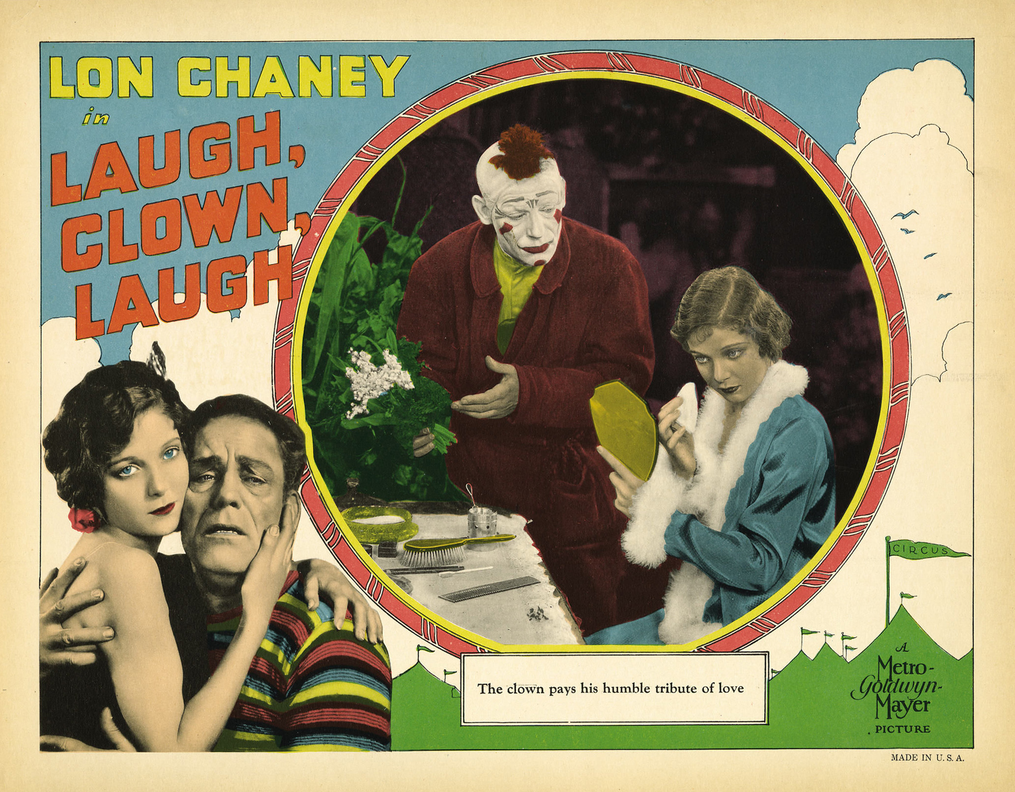 Film poster for the American drama film Laugh, Clown, Laugh (1928).